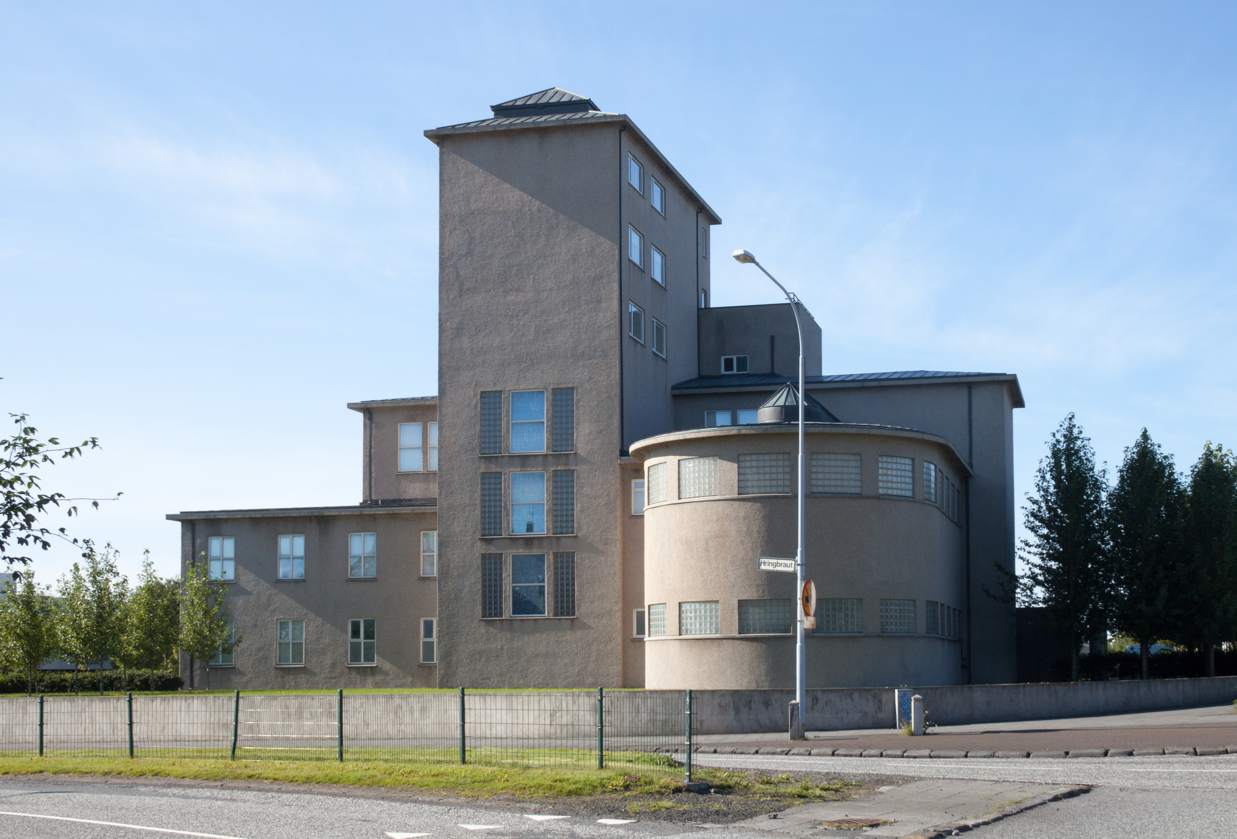 Building of the National Museum in Reykjavík